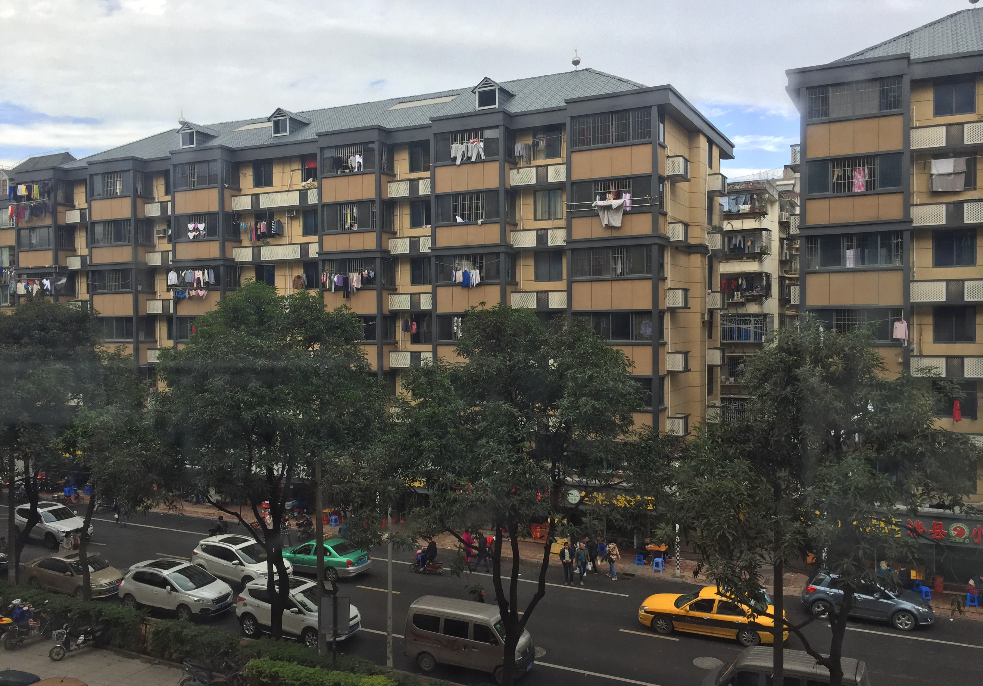 Hokchew can also be modern...